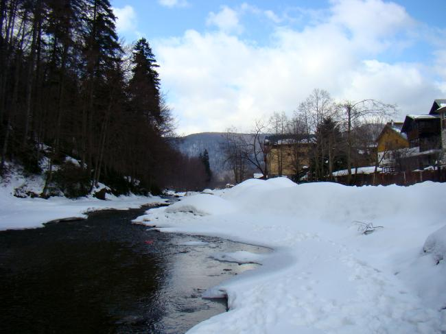 Raul Azuga, Azuga, Prahova, Romania